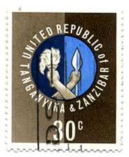 United Republic of Tanganyika & Zanzibar - 30 cents stamp 1964